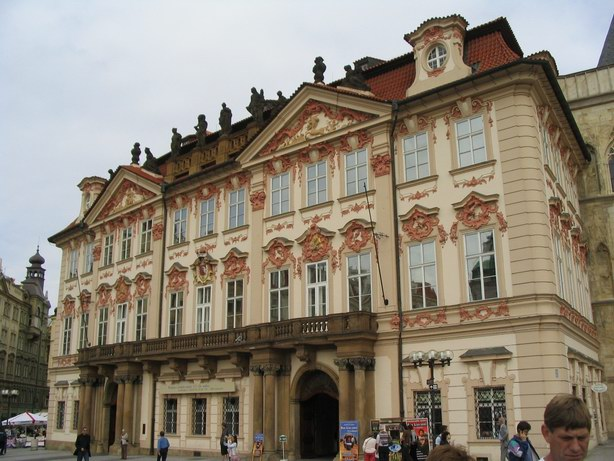 Golz-Kinsky Palace, Prague